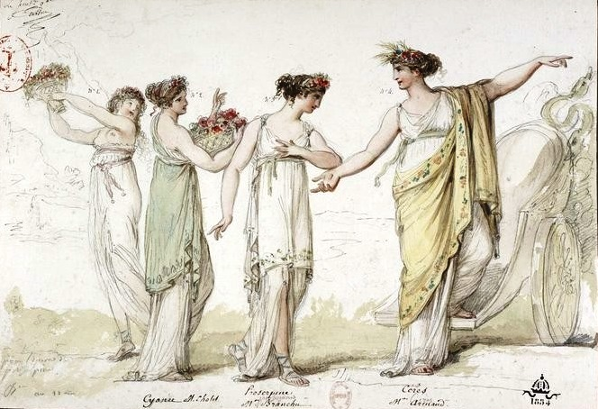 Costumes for the four principal female roles in the premiere of Giovanni Paisiello's 1803 opera Proserpine. They depict, left to right: a nymph (singer unknown), Cyané (Mlle. Cholet), Proserpine (Alexandrine-Caroline Branchu), Cérès (Anne-Aimée Armand).